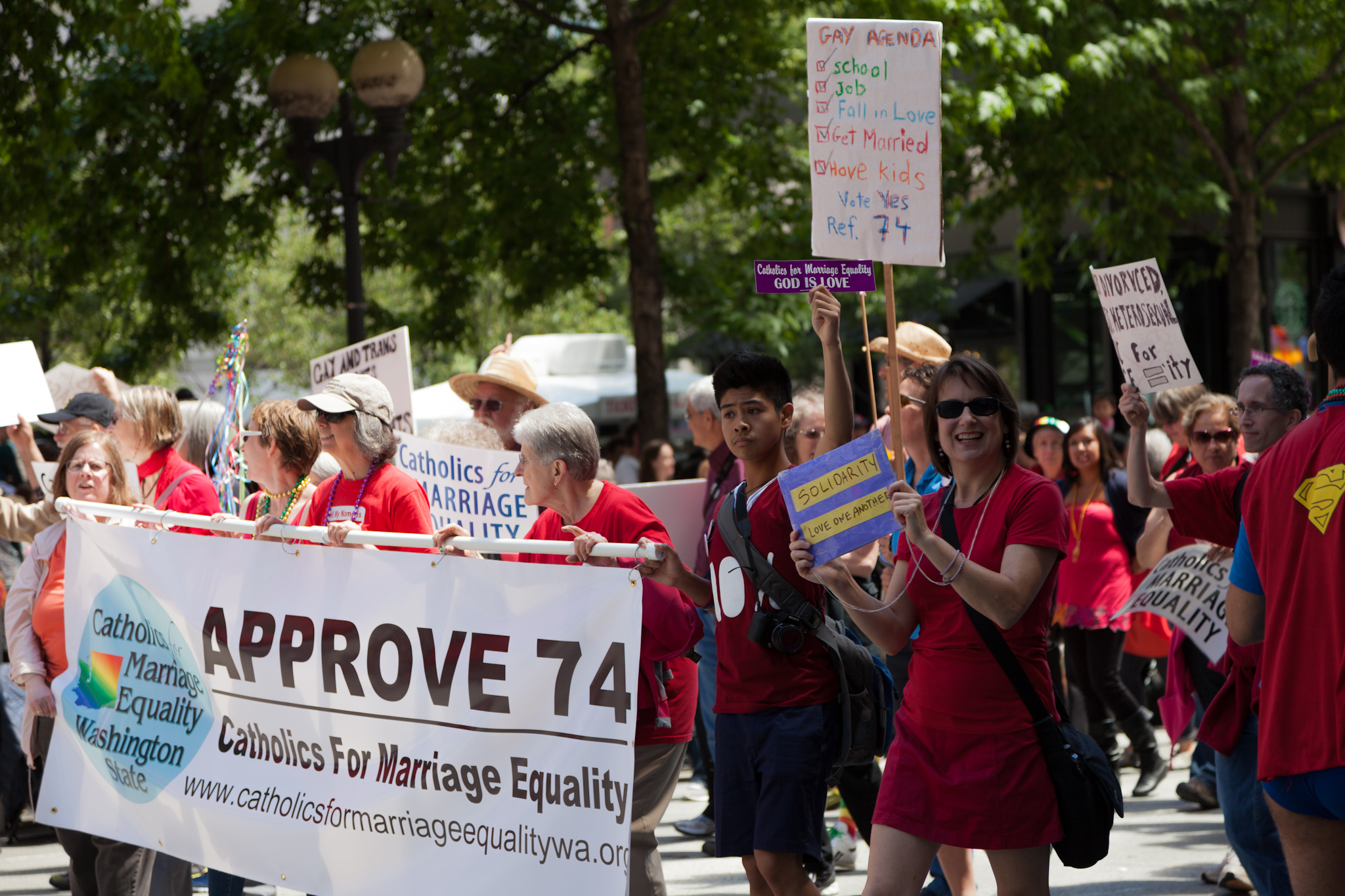 Seattle Pride 2012 Seattle Pride 2012